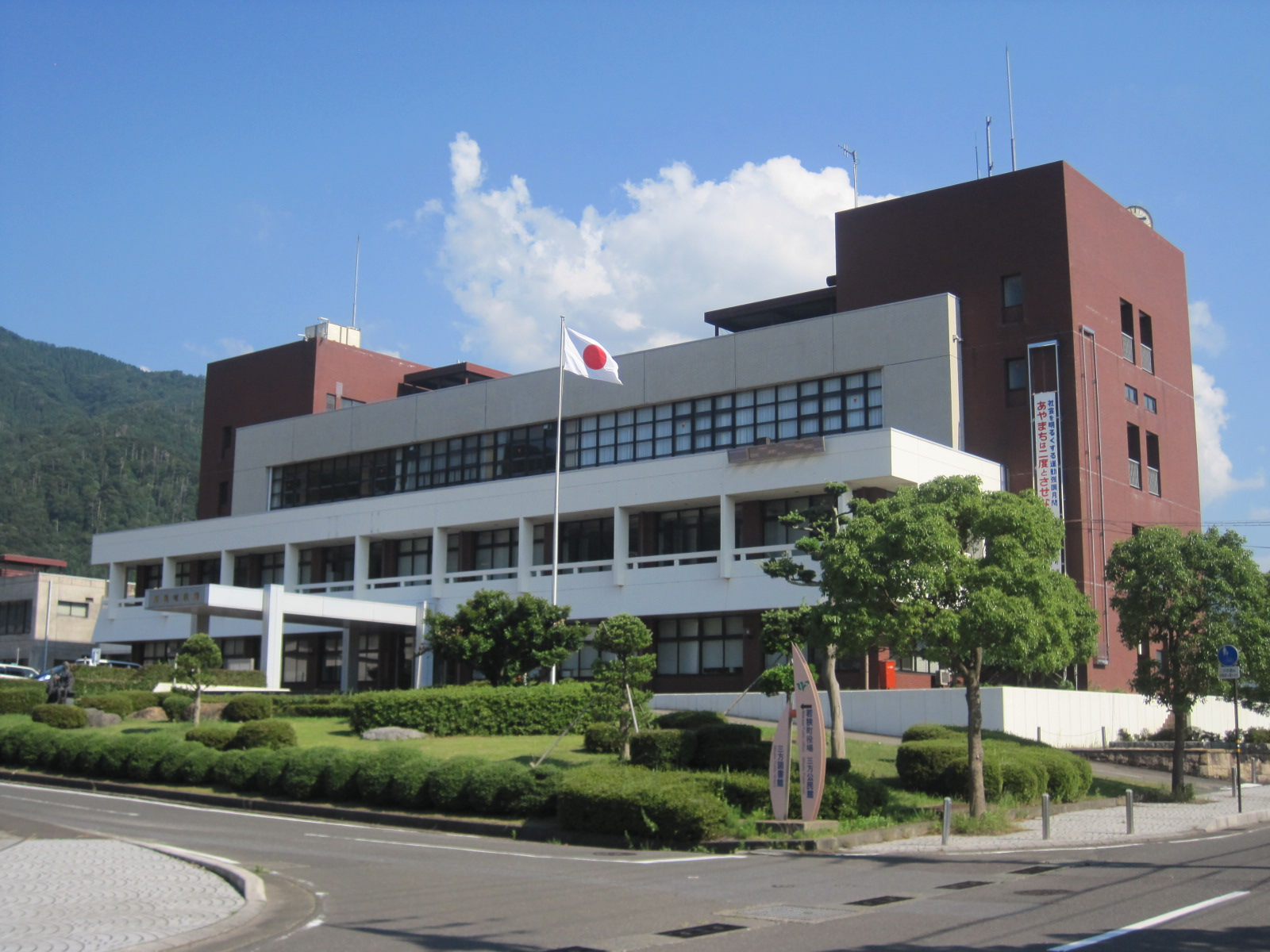 Wakasa Town Hall Mikata Branch (Wakasa town, Fukui prefecture)